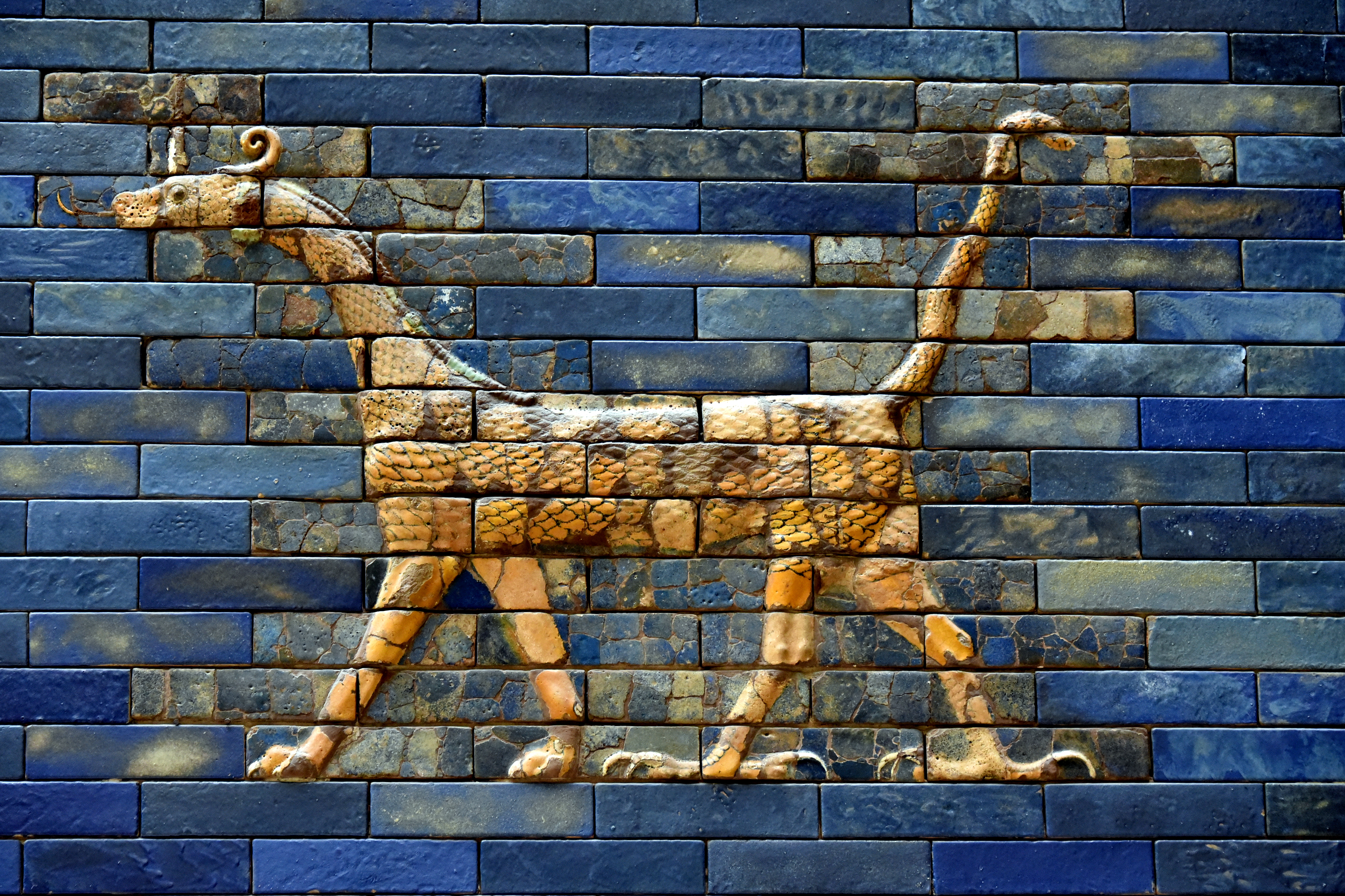 Dragon (mušḫuššu, representing the god Marduk) from the 3rd building phase of the Ishtar Gate of Babylon. The glazed aurochs and dragons (colored, glazed, and molded bricks) of the reconstructed Ishtar Gate represent the 3rd building phase (seen by the public in antiquity; above the ground level). Colored, glazed, and molded bricks. From Babylon, reign of Nebuchadnezzar II, 6th century BCE. Pergamon Museum, Berlin, Germany.